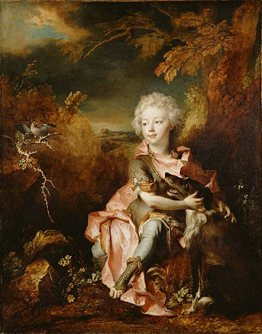 presumibly a member of the French royal family (Louis de Bourbon?)